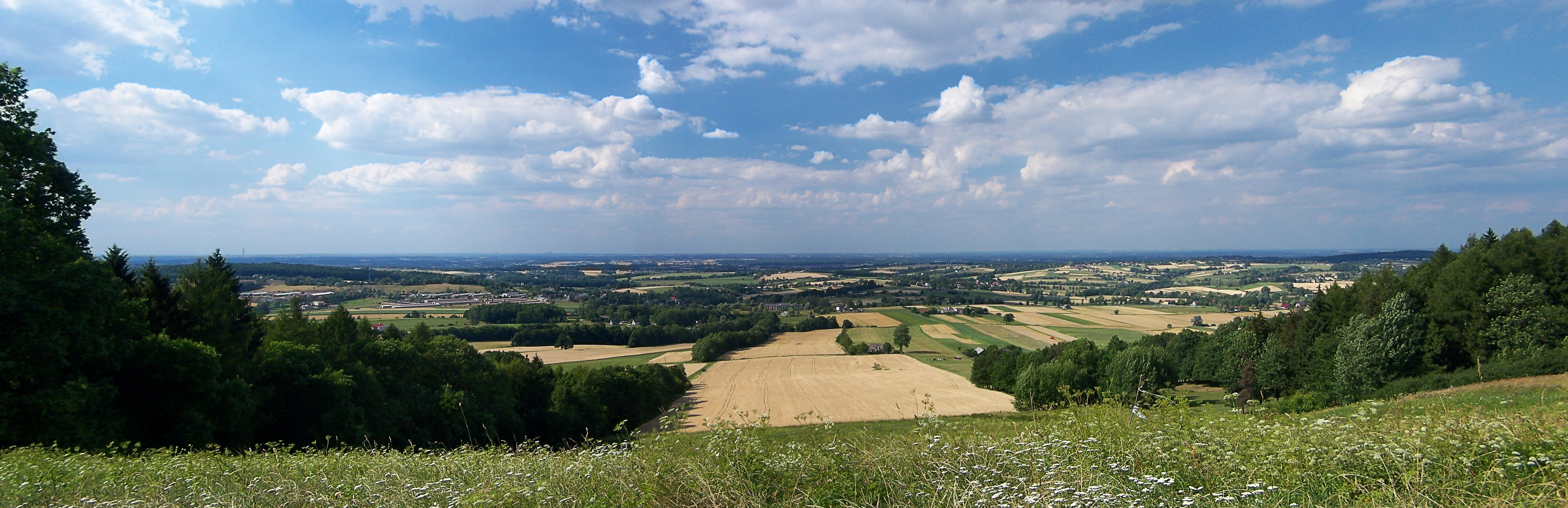 Lovely view from the Chełm mountain near Goleszów (Poland).